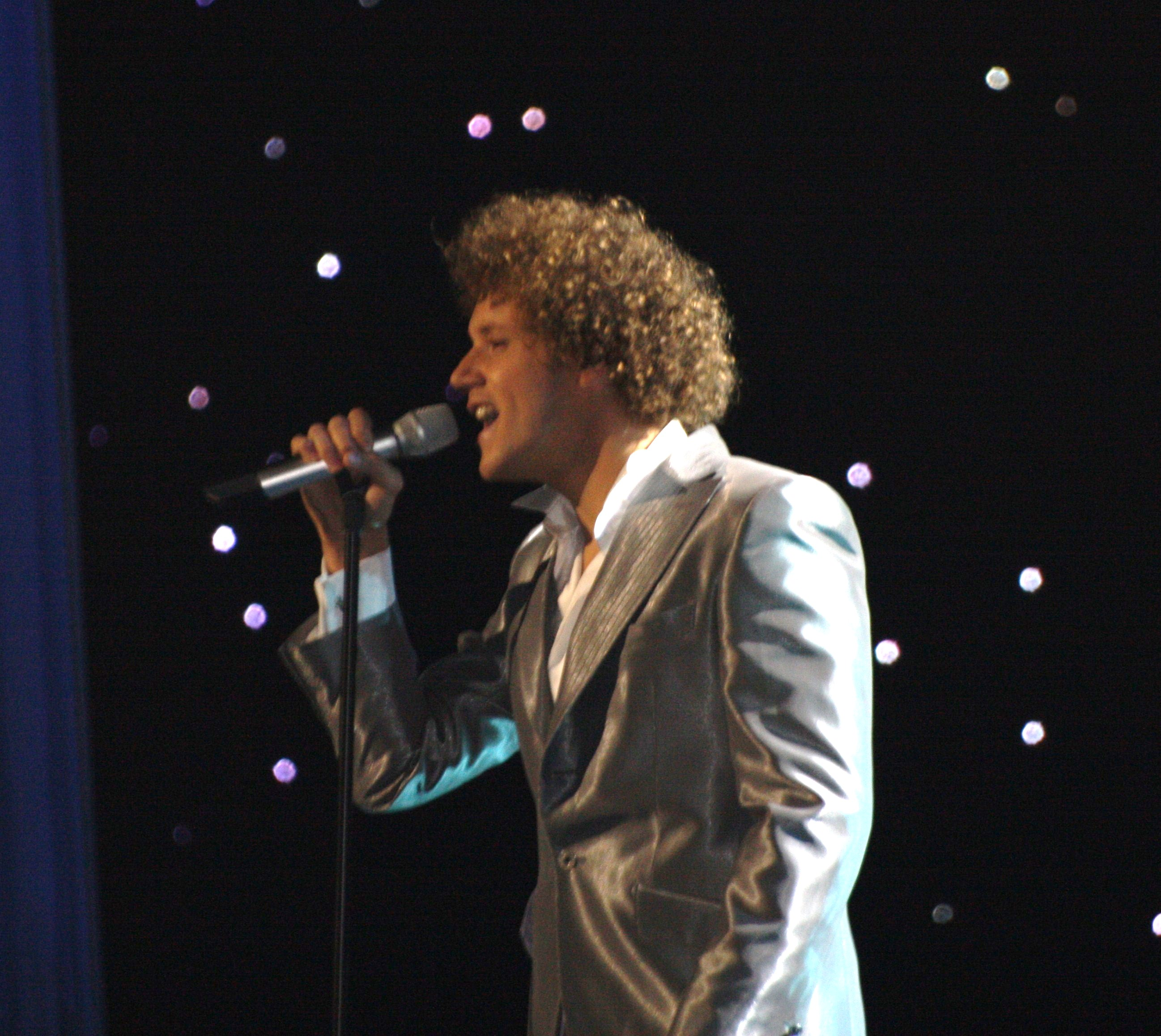 Daniel Diges, Spainn's contestor at ESC 2010, Telenor Arena, Norway.